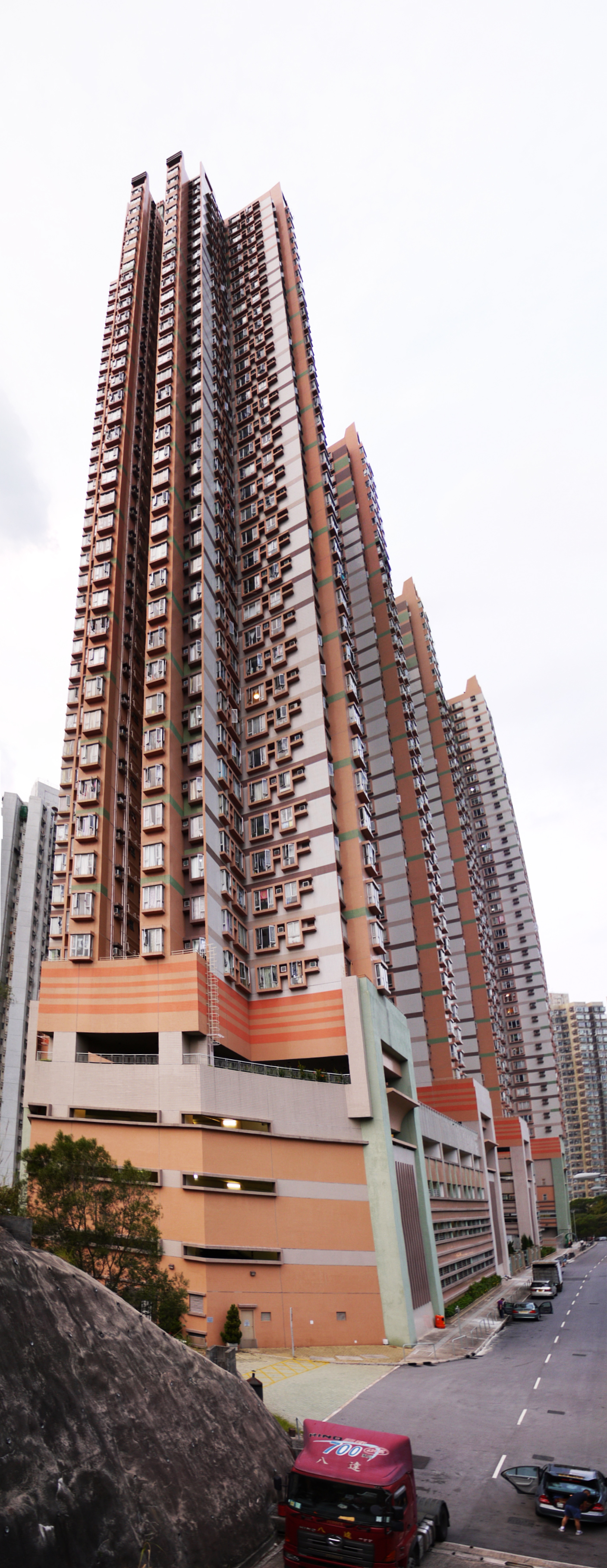 Kingston Terr1 copy copy